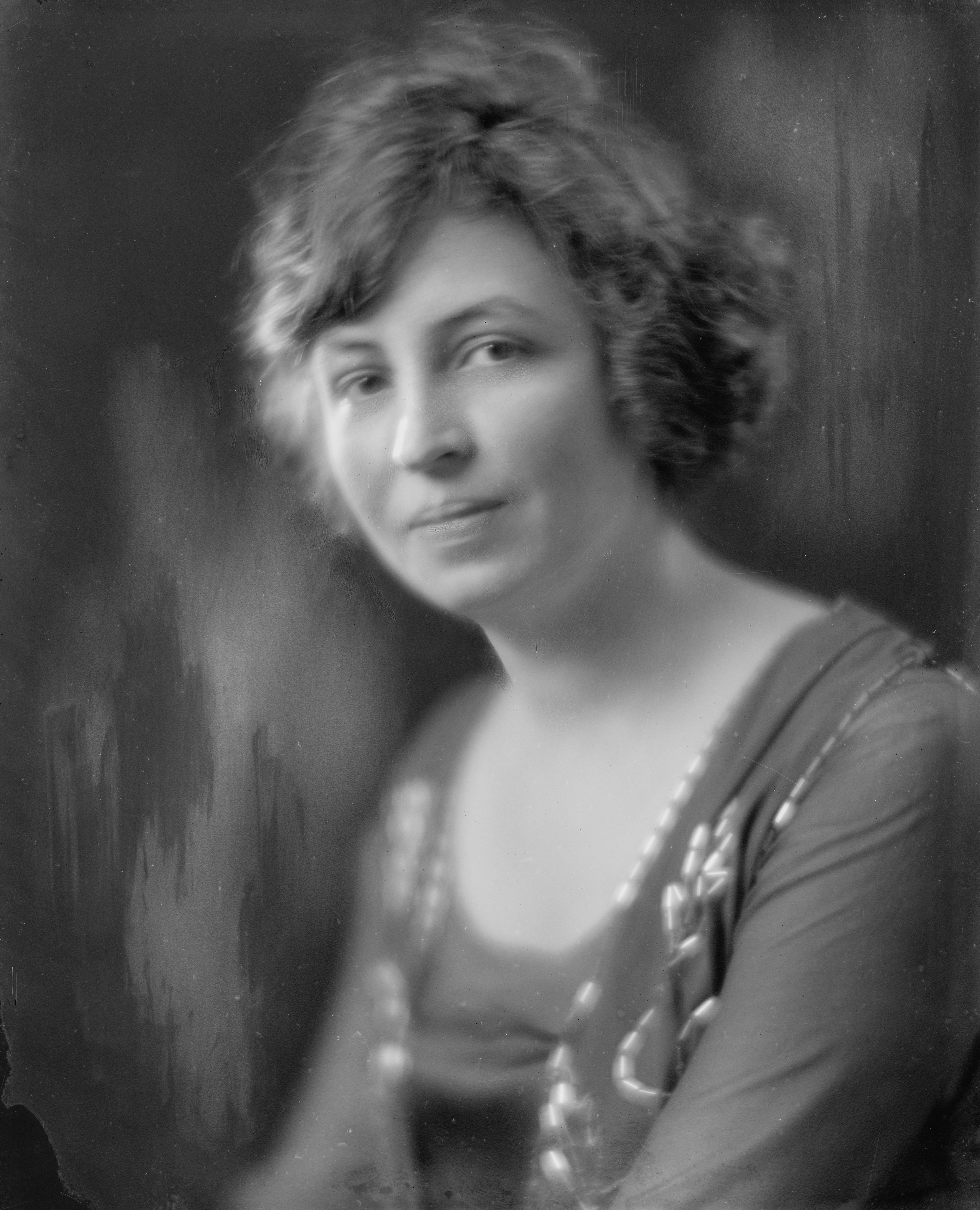 Title: SHEPPARD, MORRIS, MRS. Abstract/medium: 1 negative : glass ; 8 x 10 in. or smaller